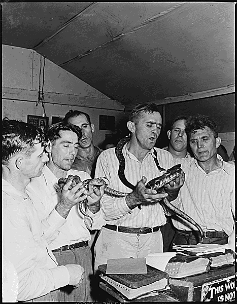 Snake handling ritual at the Pentecostal Church of God in Lejunior, Kentucky, USA, photographed in 1946. Caption: "Handling of serpents, a part of the ceremony at the Pentecostal Church of God. This coal camp offers none of the modern types of amusement and many of the people attend the services of this church more for the mass excitement and emotionalism than because of belief in the tenets of this church. Lejunior, Harlan County, Kentucky., 09/15/1946." ARC identifier: 541340.